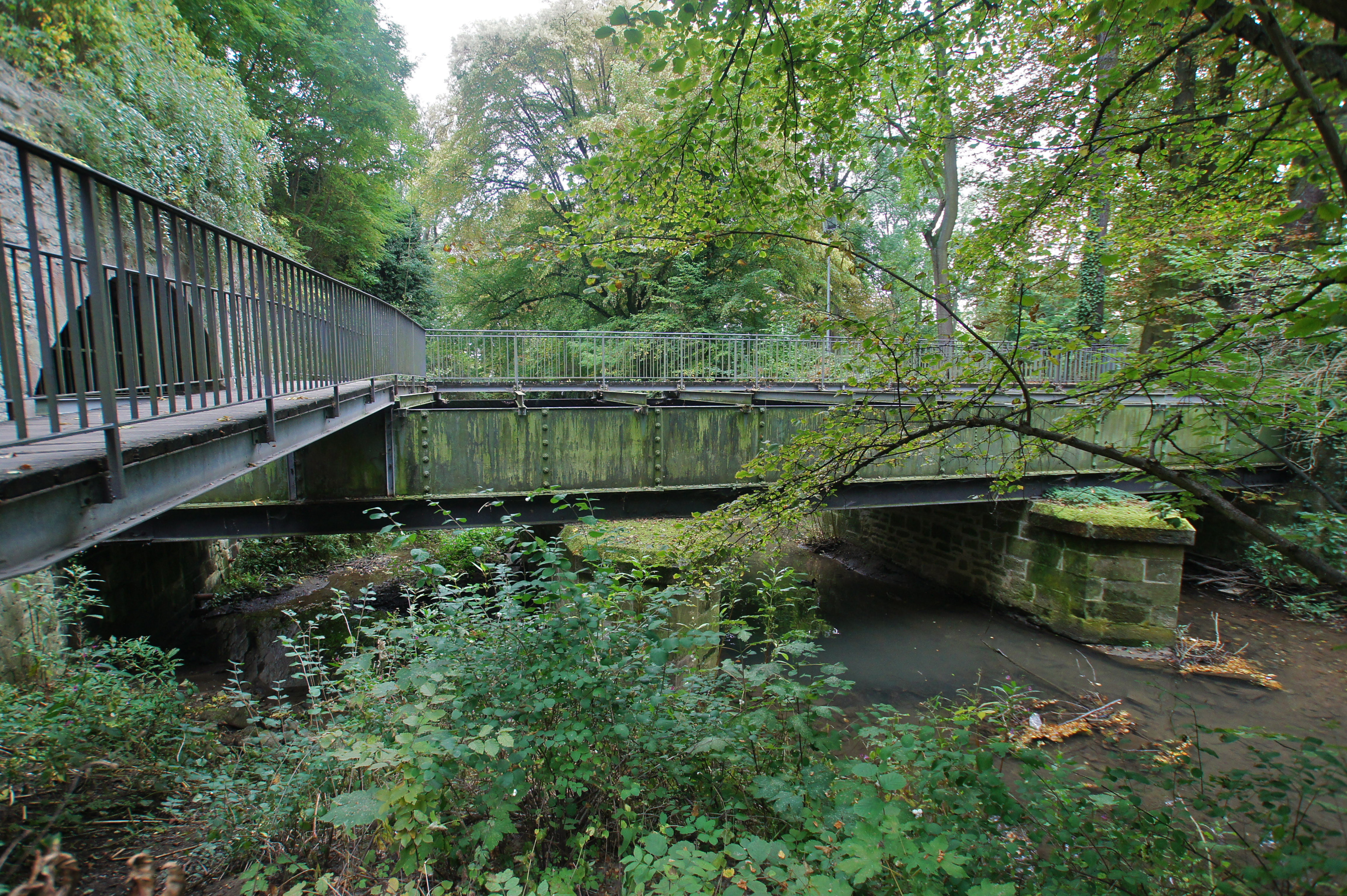 Einbeck, Germany: The aqueduct of the Mühlenkanal over the river Krummes Wasser